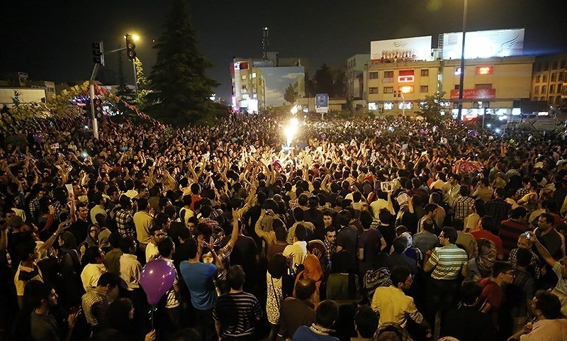 Supporters of Hassan Rouhani celebrating his election as President of Iran in 2013 election, Tehran